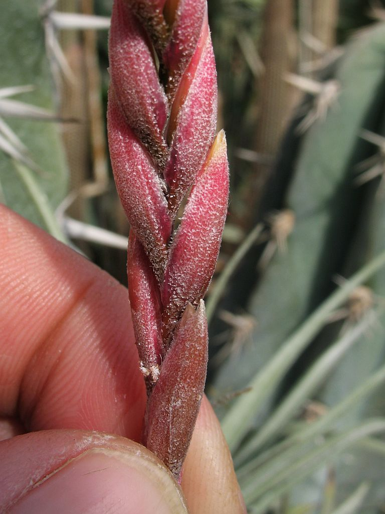 Tillandsia rauschii, in cultivation at the Botanical Garden of Heidelberg, Germany.